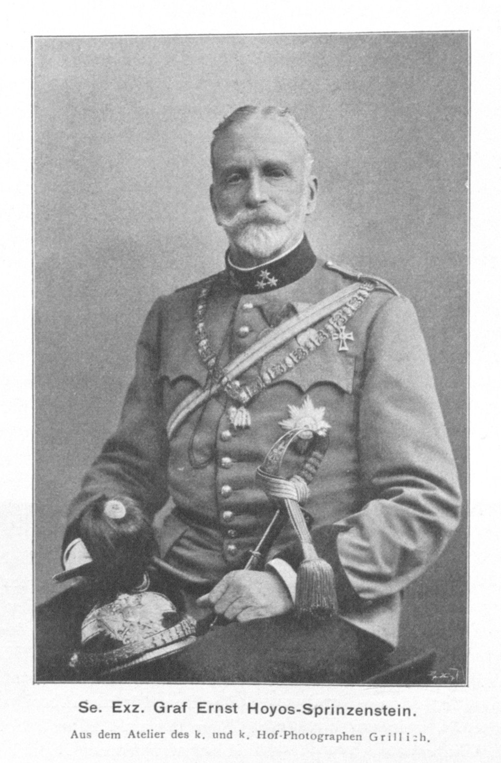 Photo of Ernst Karl von Hoyos-Sprinzenstein (1830-1903), Austrian nobleman.